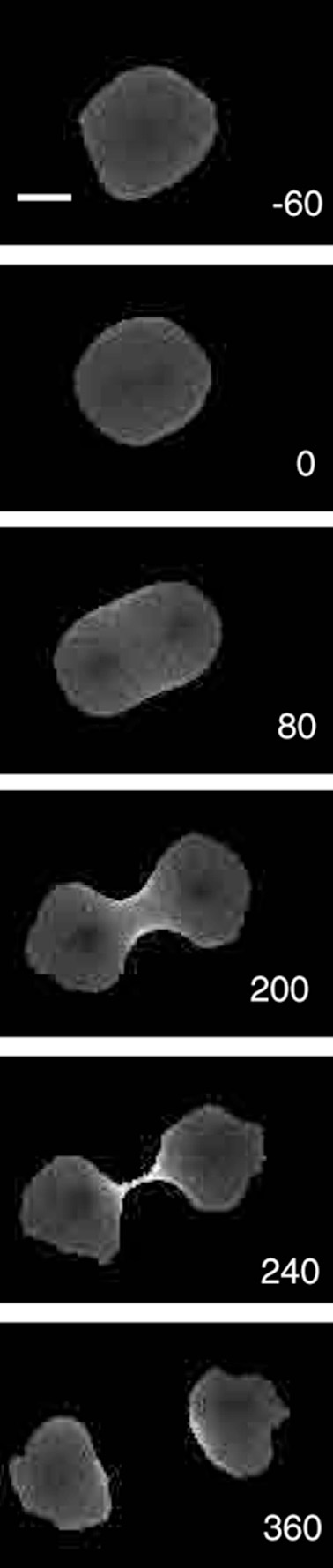 Original Figure legend: "A time series of ratio images of a wild type GFP-myosin-II expressing cell going through cytokinesis. The numbers indicate seconds with 0 defined as the point of nuclear division. Bar, 5 μm." From the numbers and images it follows that with "nuclear division" the onset of Anaphase is meant. The Organism is Dictyostelium discoideum. Cell division is similar for animal cells.